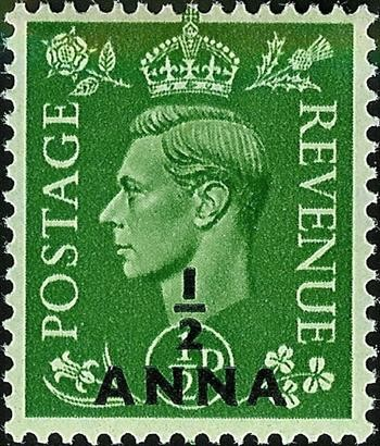 UK postage stamp overprinted for British Postal Agencies in Eastern Arabia (Oman), King George VI definitives, issued April 1, 1948, ½ Indian anna on ½ pence, multiple watermark - Crown and G VI R, Michel catalogue No. OM 16.